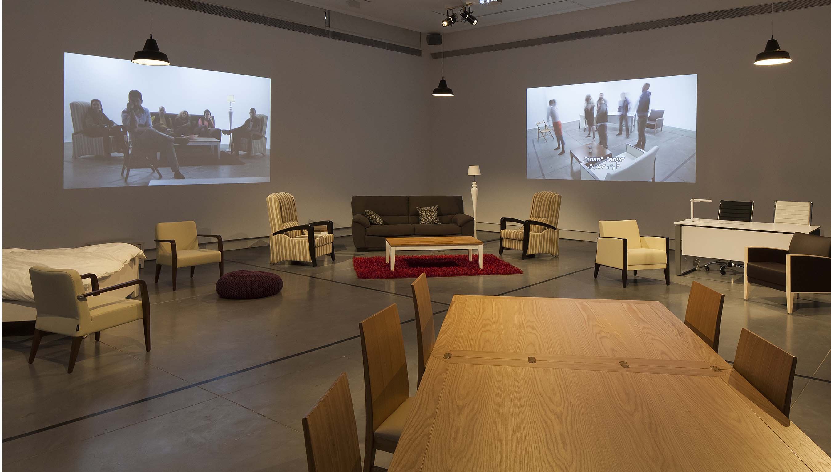 Still image from a video installation by Einat Amir